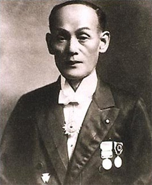 From Yamaha's official brand book. I am oficial staff.